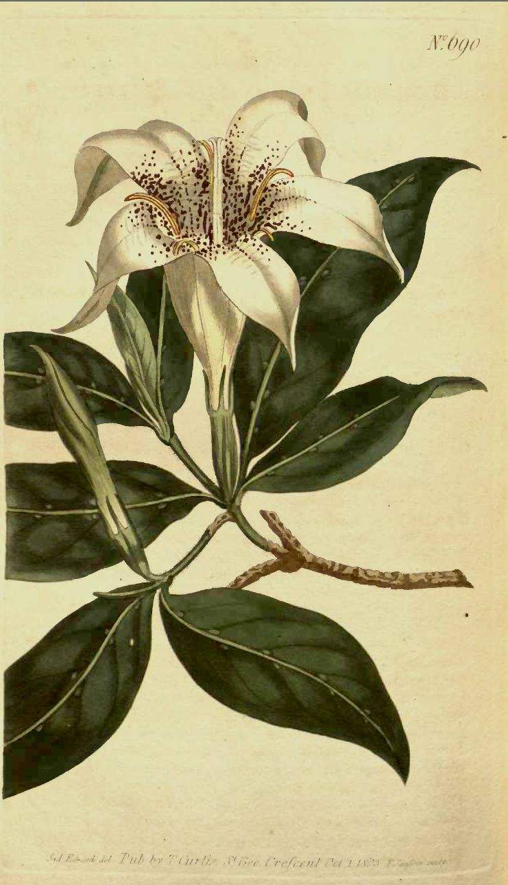 Rothmannia capensis Thunb.